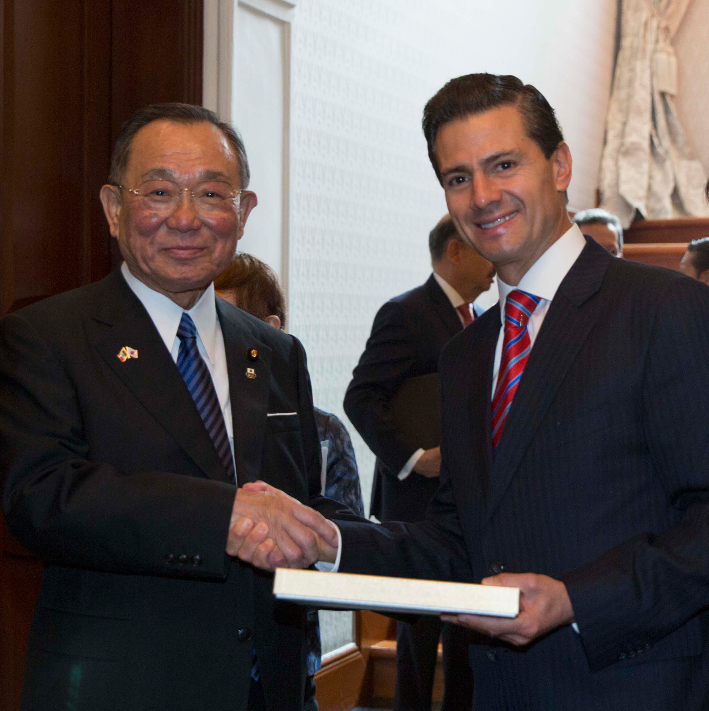 Reunión de trabajo con el Presidente de la Cámara de Consejeros de Japón, Sr. Masaaki Yamazaki. Residencia Oficial de los Pinos, Ciudad de México. 22 de octubre de 2015.